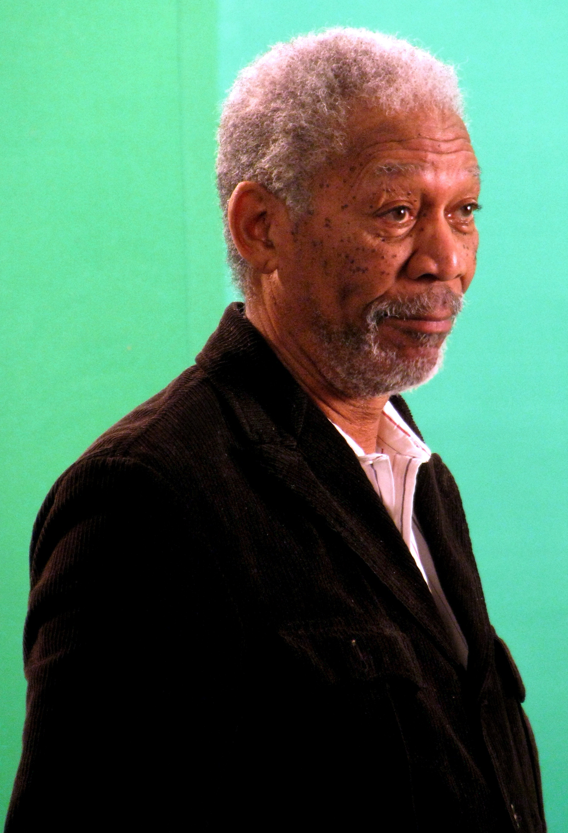 A few pics of the Morgan Freeman shoot in the B8 Auditorium. The shoot was conducted by/for Discovery as part of an advance/promo for an upcoming science series. Photos by Ed Campion.